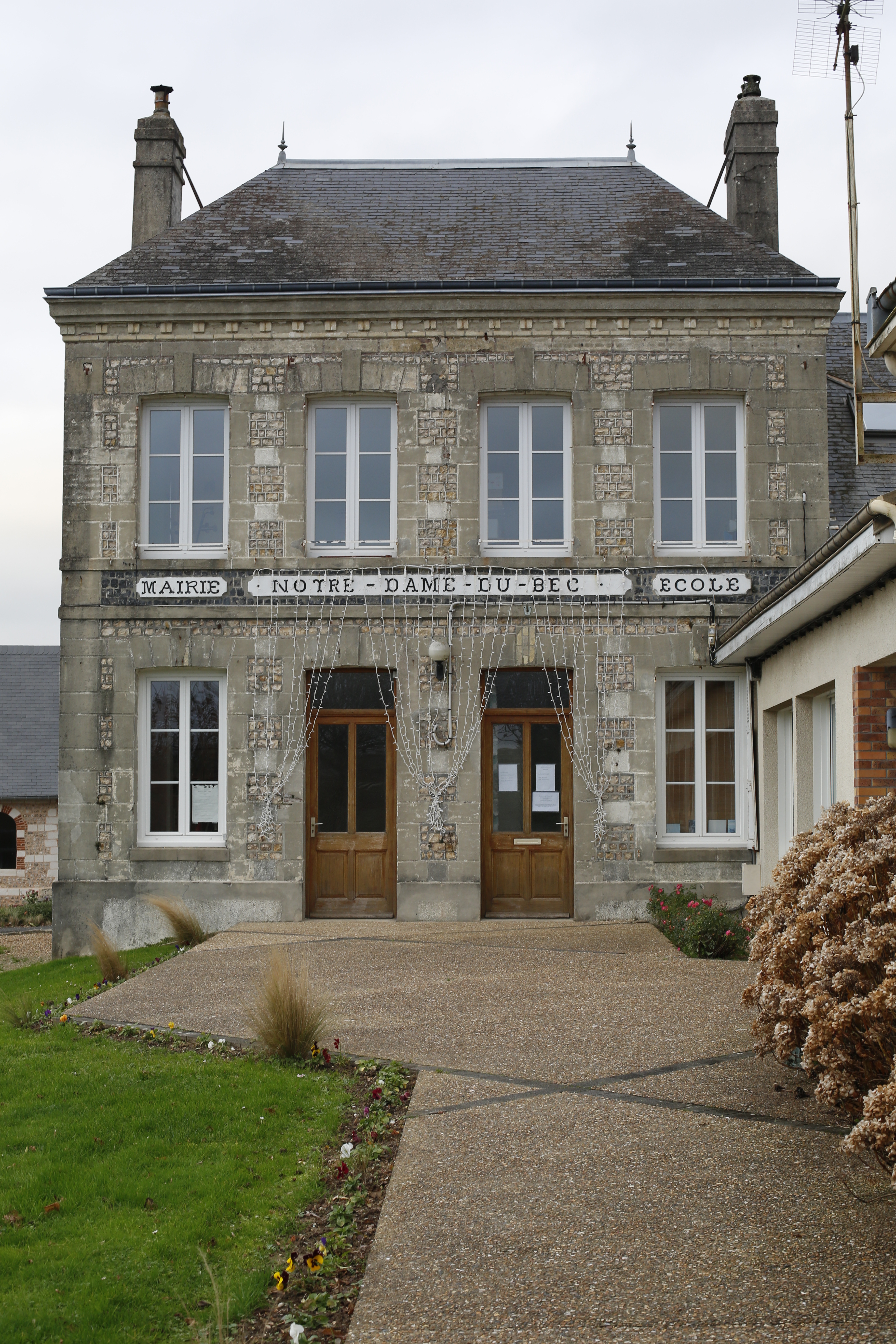 Town hall of Notre-Dame-du-Bec.